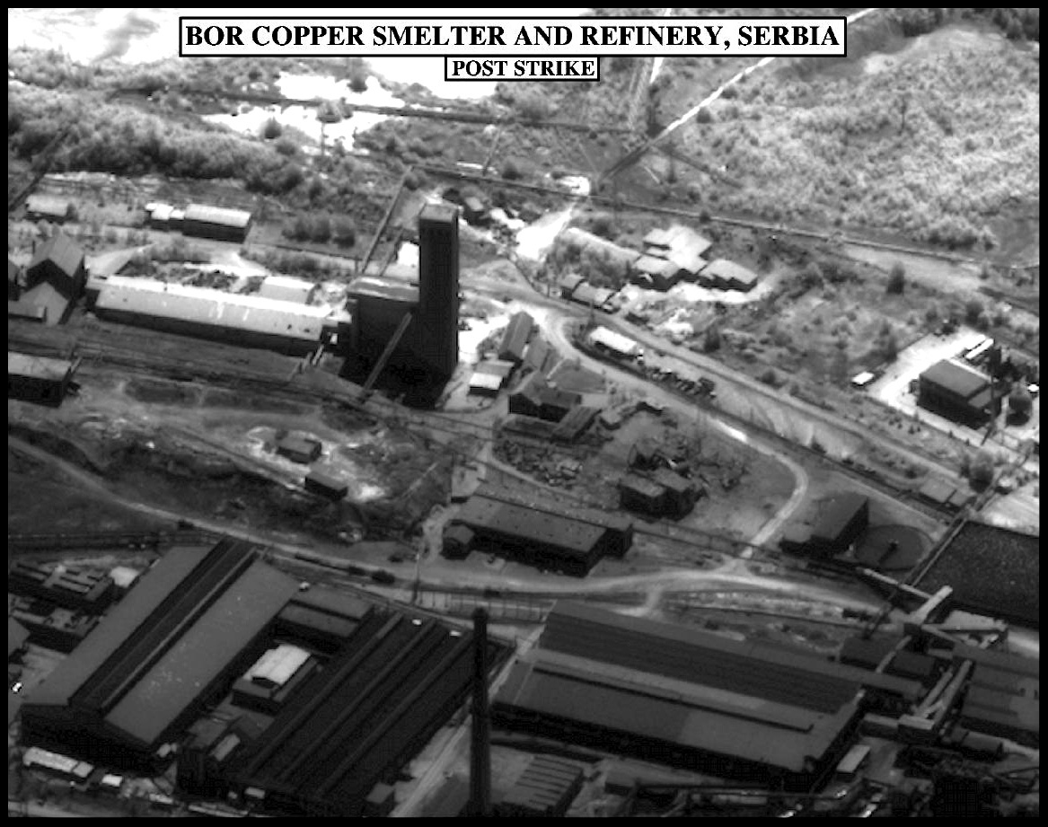 Post-strike bomb damage assessment photograph of the Bor Copper Smelter and Refinery, Serbia, used by Joint Staff Vice Director for Strategic Plans and Policy Maj. Gen. Charles F. Wald, U.S. Air Force, during a press briefing on NATO Operation Allied Force in the Pentagon on May 28, 1999.